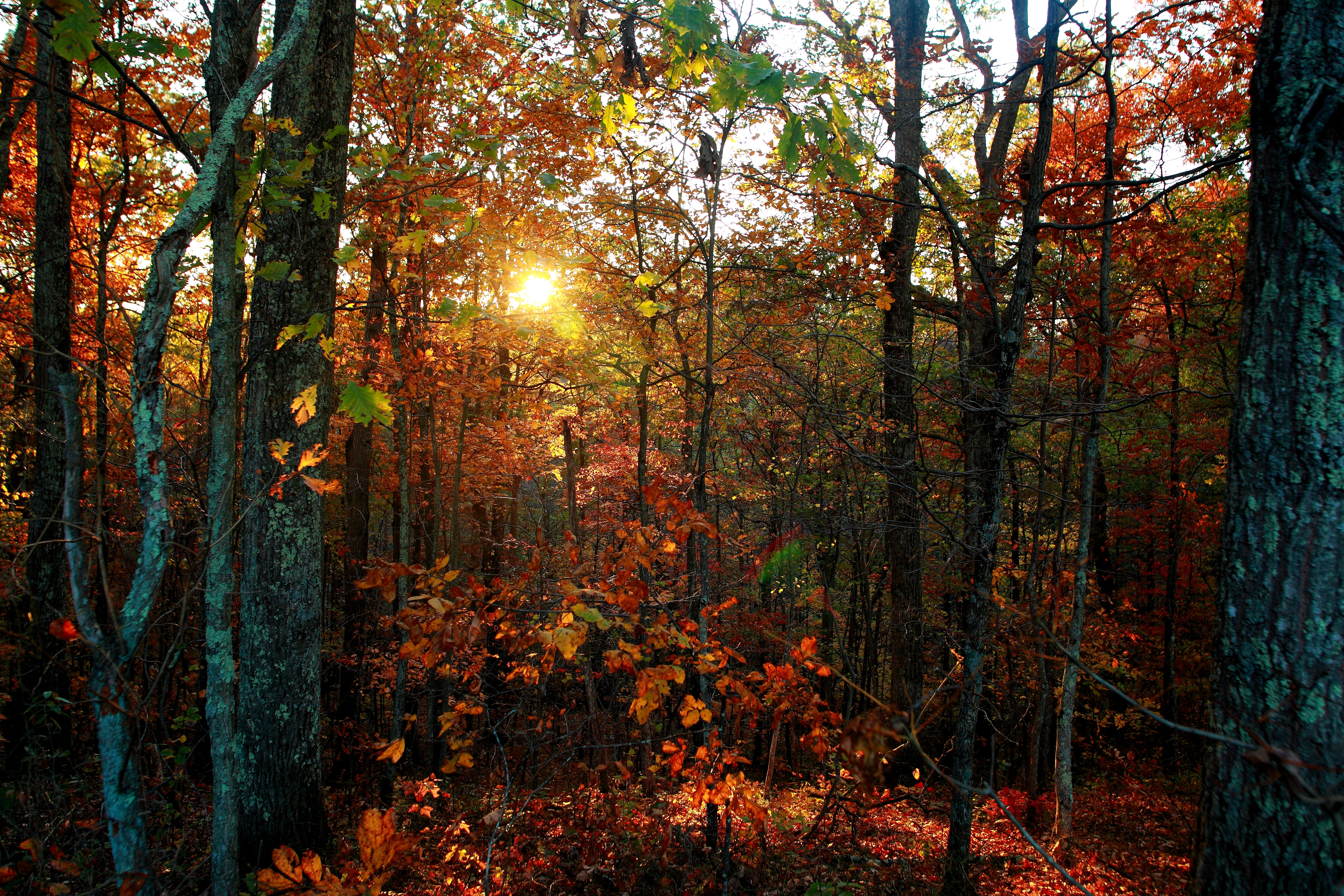 Autumn Trees Leaves Foliage Sunset